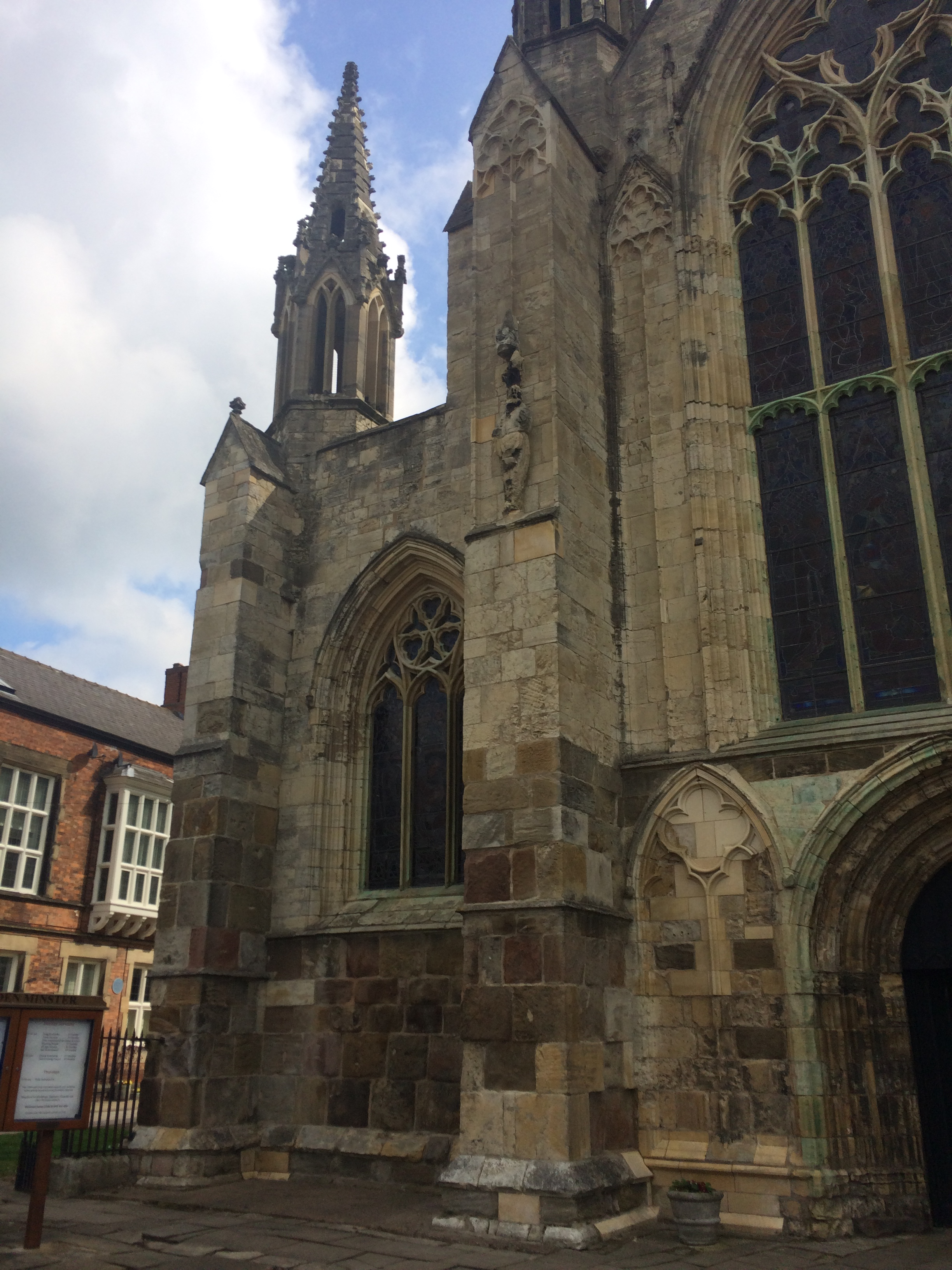 The west front of Howden Minster can be firmly dated to the years of Antony Bek's episcopacy in Durham, 1308-11, as his coat of arms was formerly displayed in its stained glass. The date fits well with its architectural style. Bek must have been a prominent patron, quite possibly the sole donor, of the facade. It is one of a series of high-status Yorkshire buildings in the decades either side of 1300 that display strong Rayonnant influence. With its overwhelmingly upward reaching spirit and its beautiful tracery and surface decoration, it is one of the most satisfying creations of its date in England.